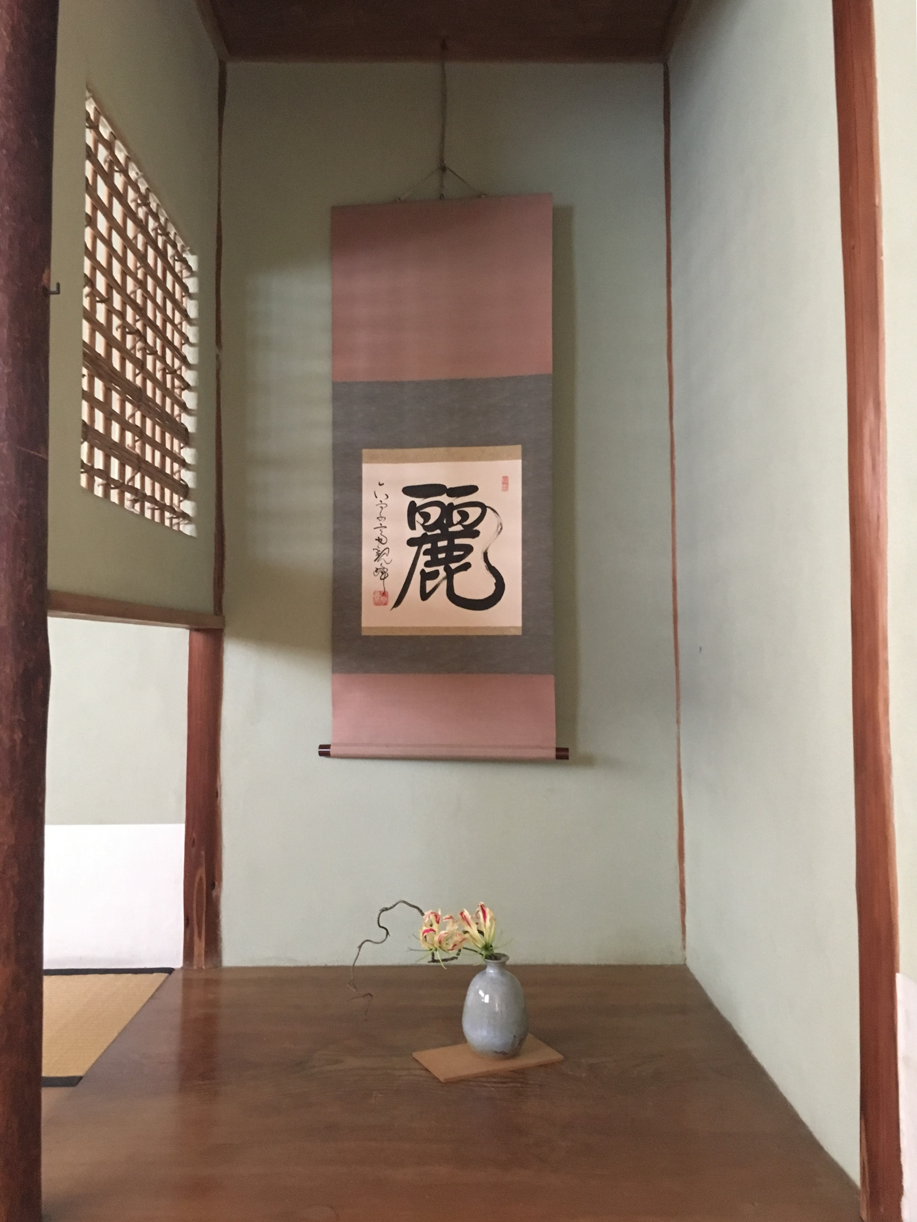 Shofuso tea room with traditional summer chabana arrangement by the Sōgetsu-ryū school of ikebana.